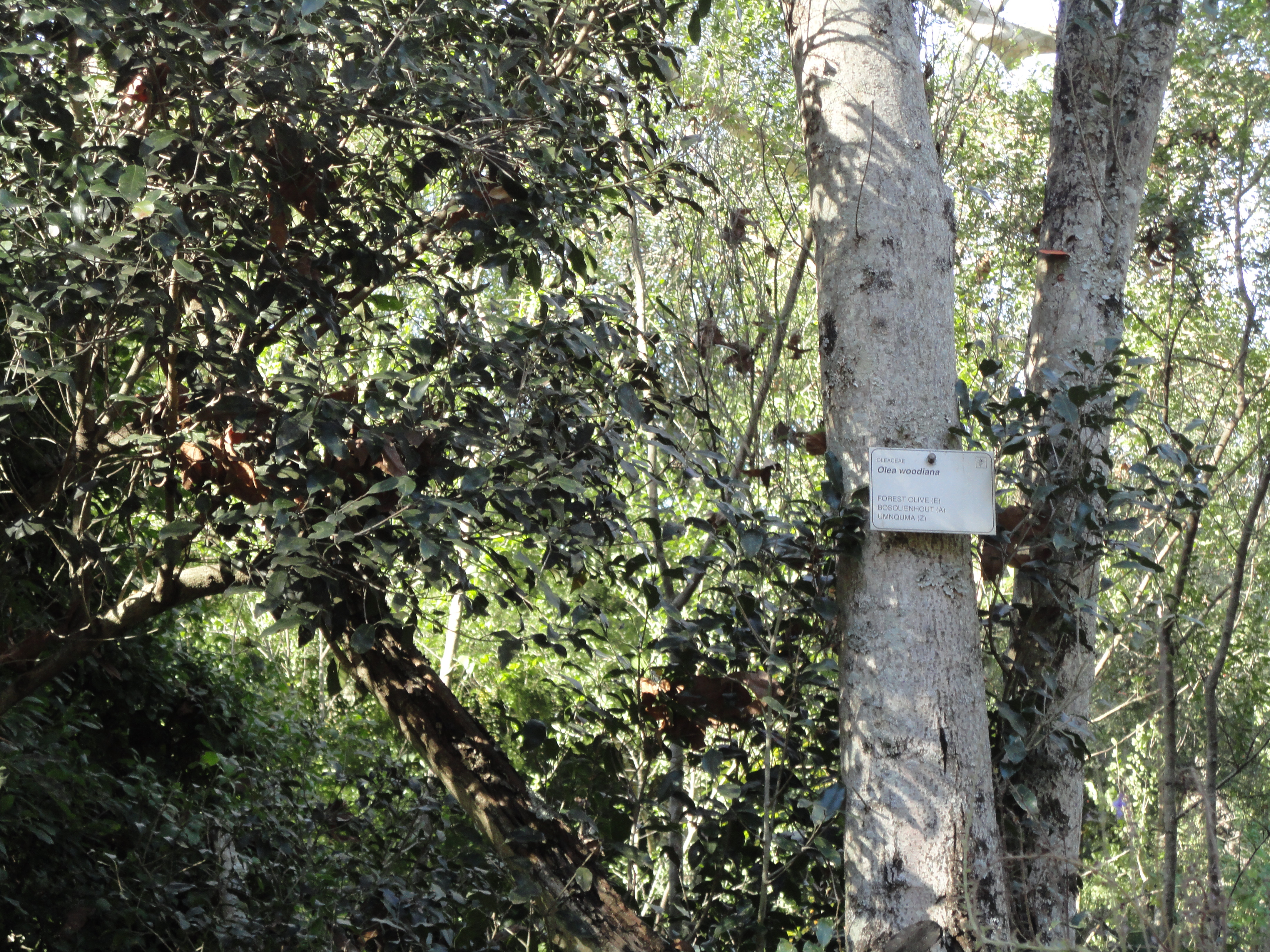 A Forest Olive (Olea woodiana) — in the KwaZulu-Natal National Botanical Garden, Pietermaritzburg, South Africa. An Olive species native to Eastern and Southern Africa.